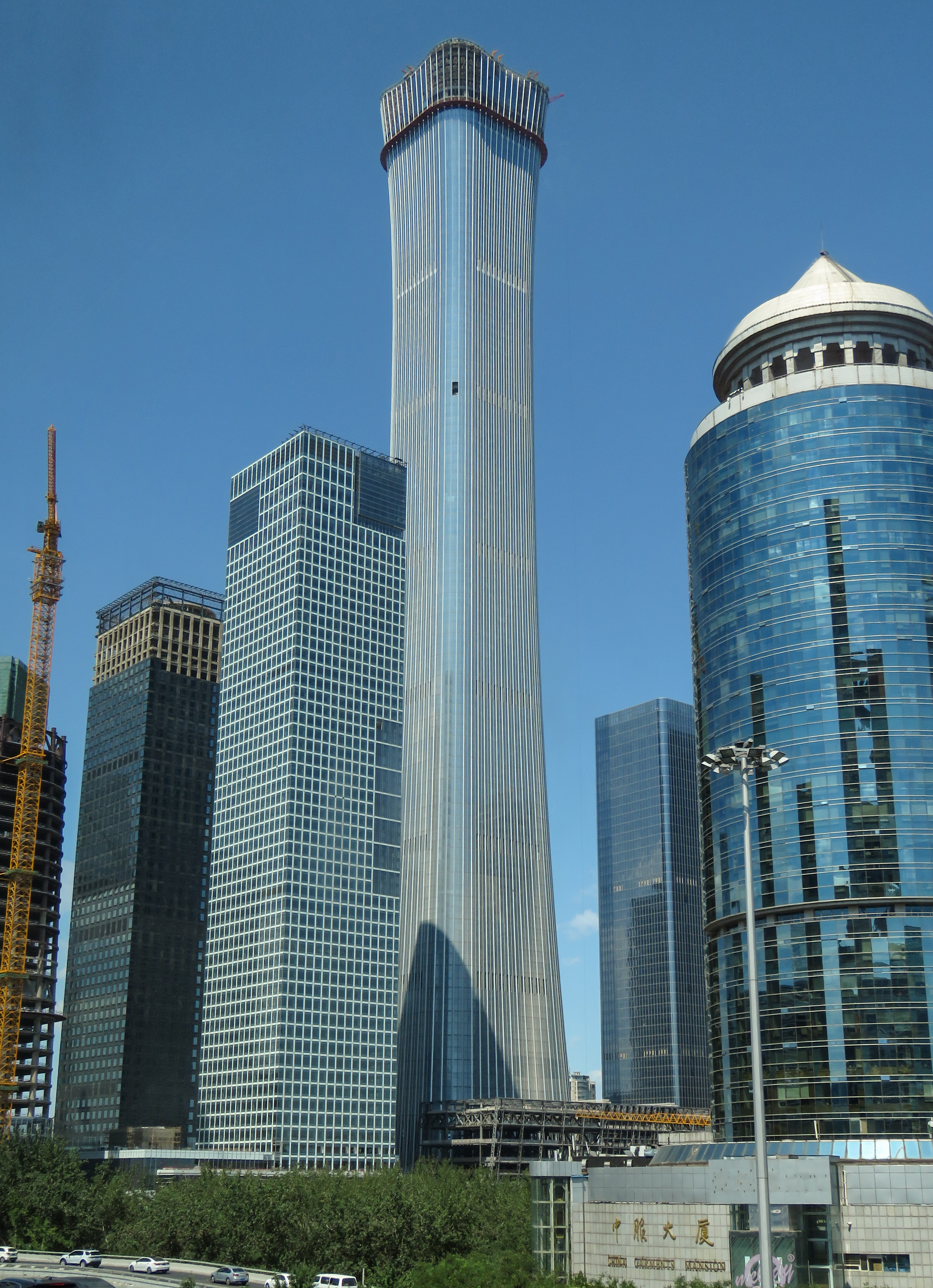 Taken from a 300 Express (actually not so fast) double-decker bus.